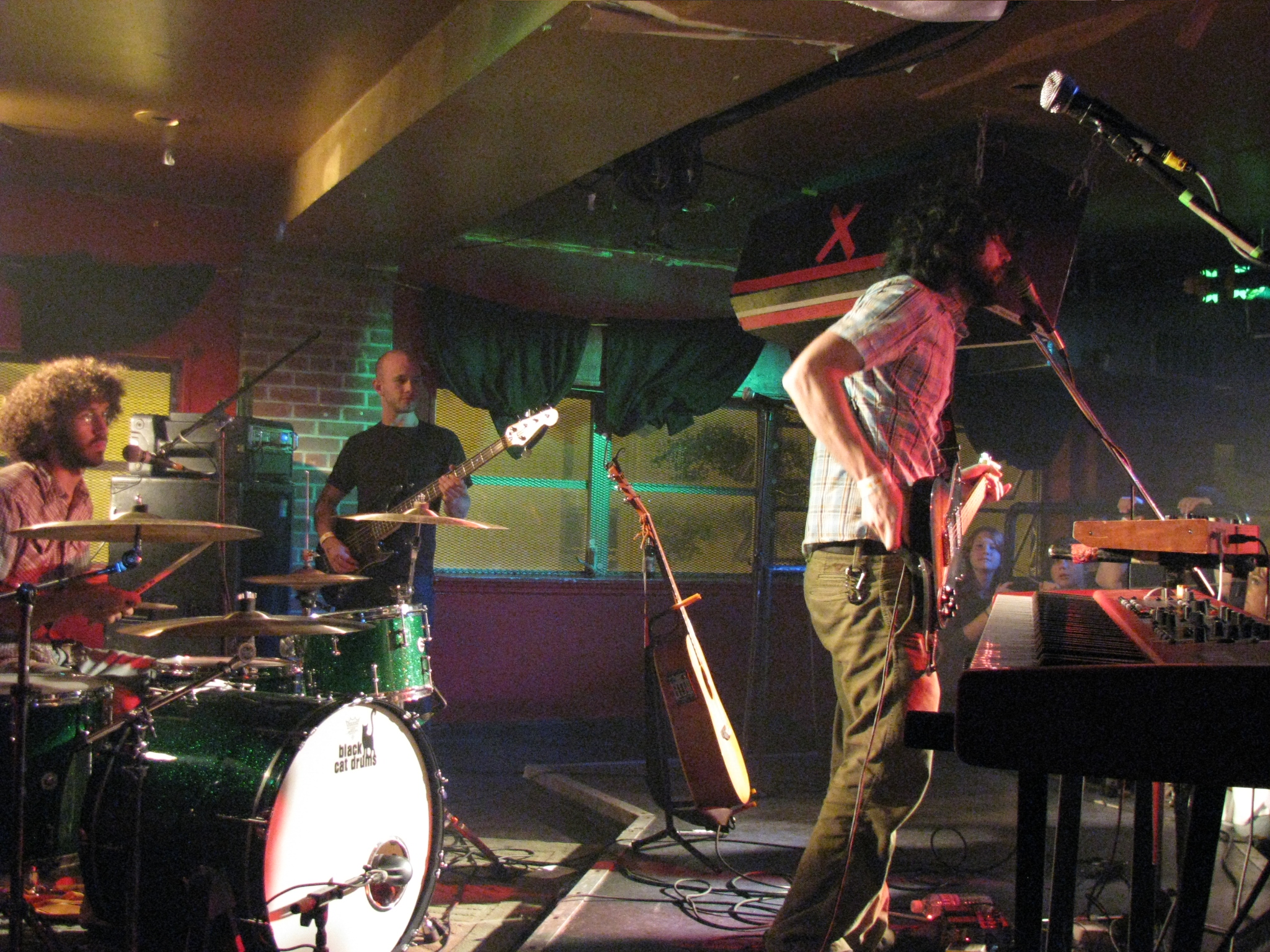 Straylight Run plays The Chance in Poughkeepsie, September 20, 2008